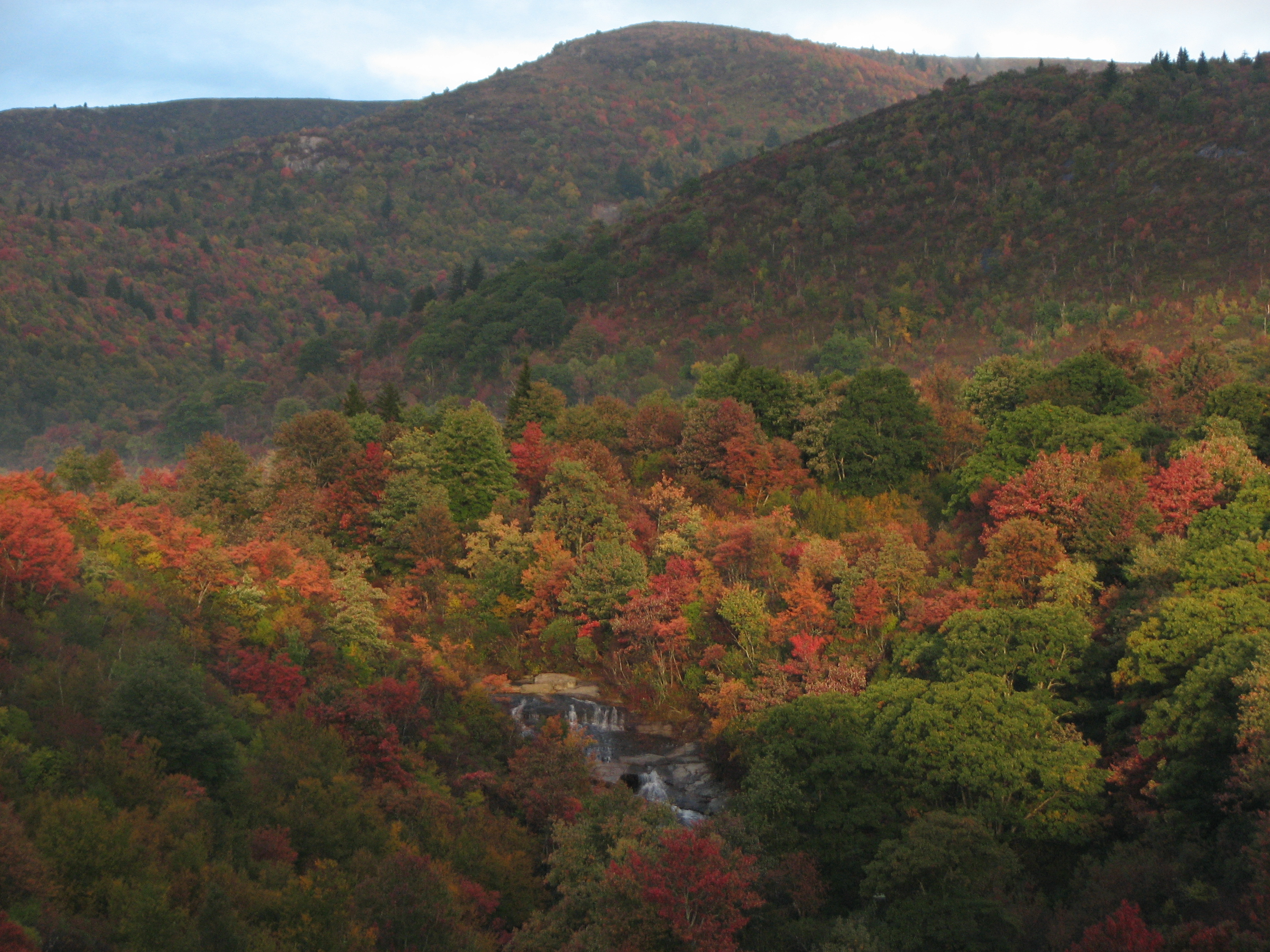 Black Balsam Knob as seen at sunrise from Blueridge Parkway Milepost 419. Graveyard Fields and the Yellowstone Falls of Yellowstone Prong are in the foreground.